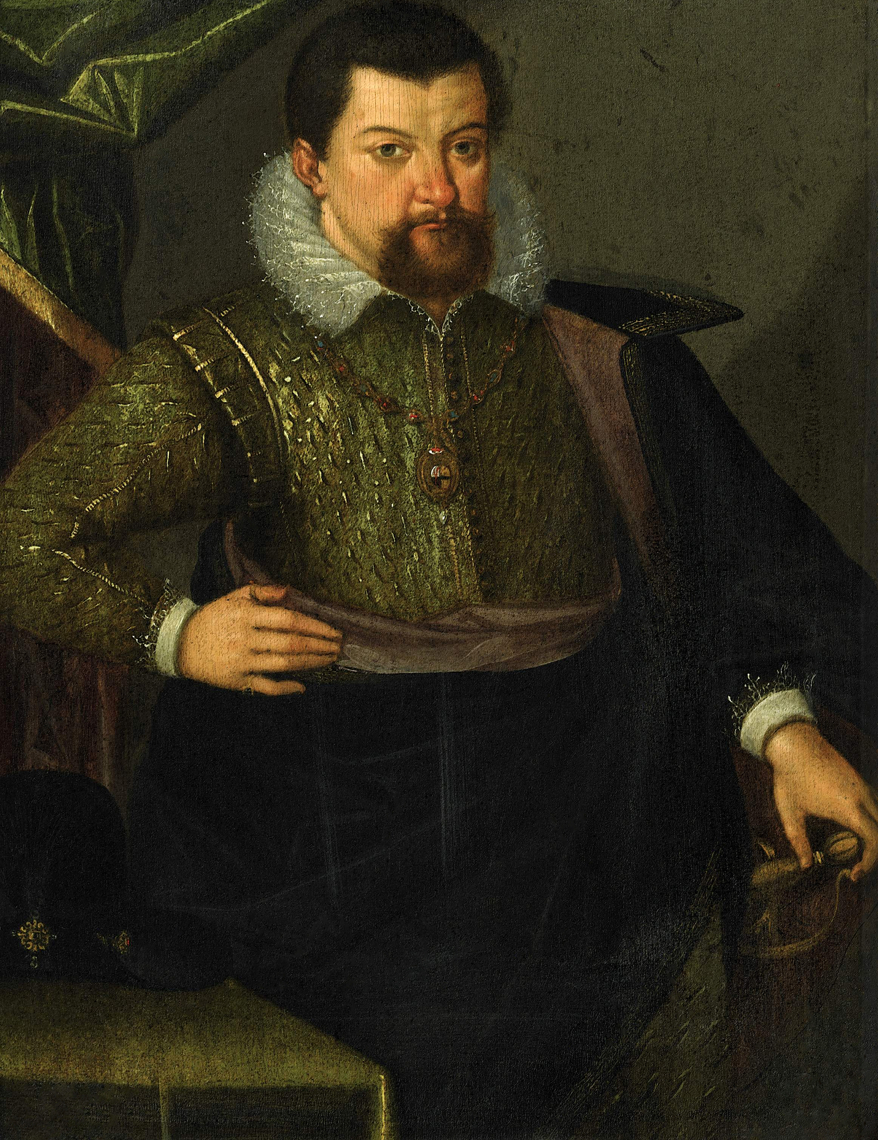 John George I (1585-1656), Elector of Saxony (1611-1656), 1611